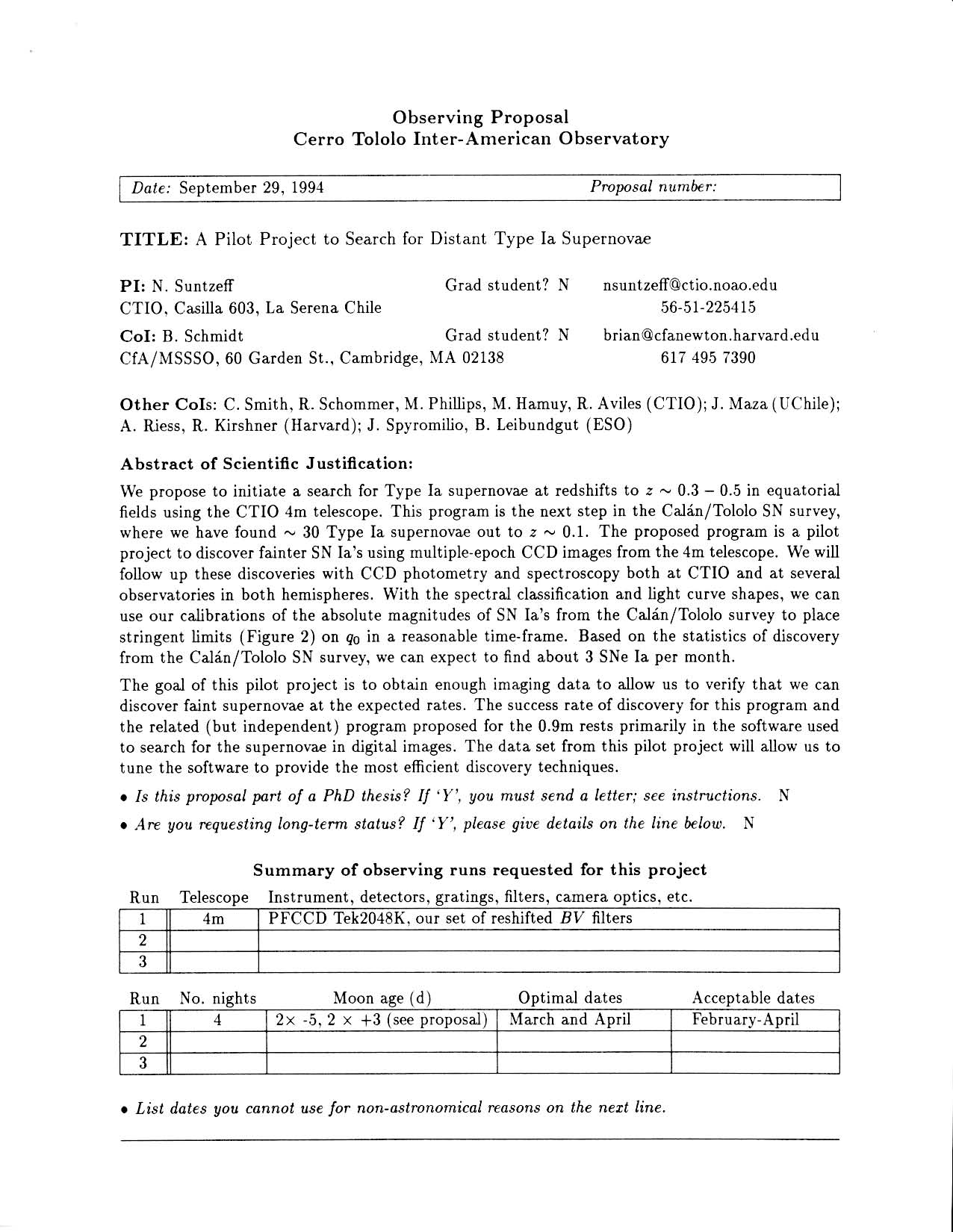 This is the original proposal to the Cerro Tololo InterAmerican Observatory in 1994 which began the High-Z Supernova Search Team.